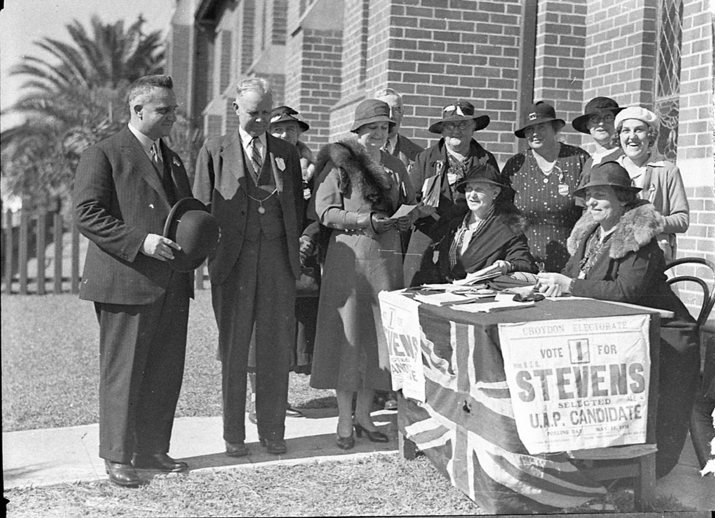 A photograph by Sam Hood of Premier Bertram Stevens (left) and men and women at a polling place in Croydon for the New South Wales state election.